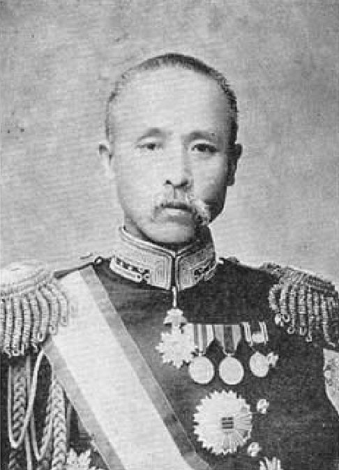 Gwon Jung-hyeon portrait